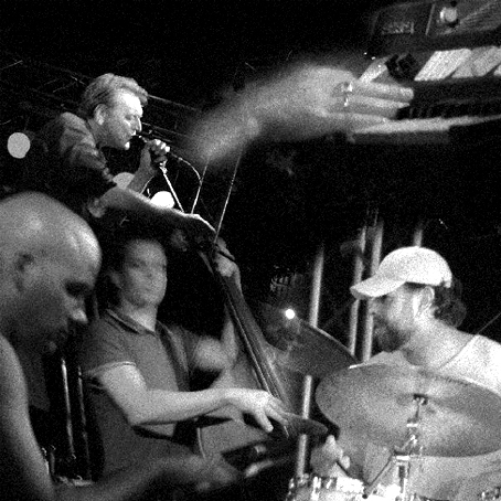 Mark Ritsema & Trio Raskolnikov